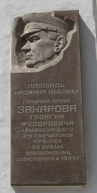 Memorial plate for general Zakharov in Sevastopol